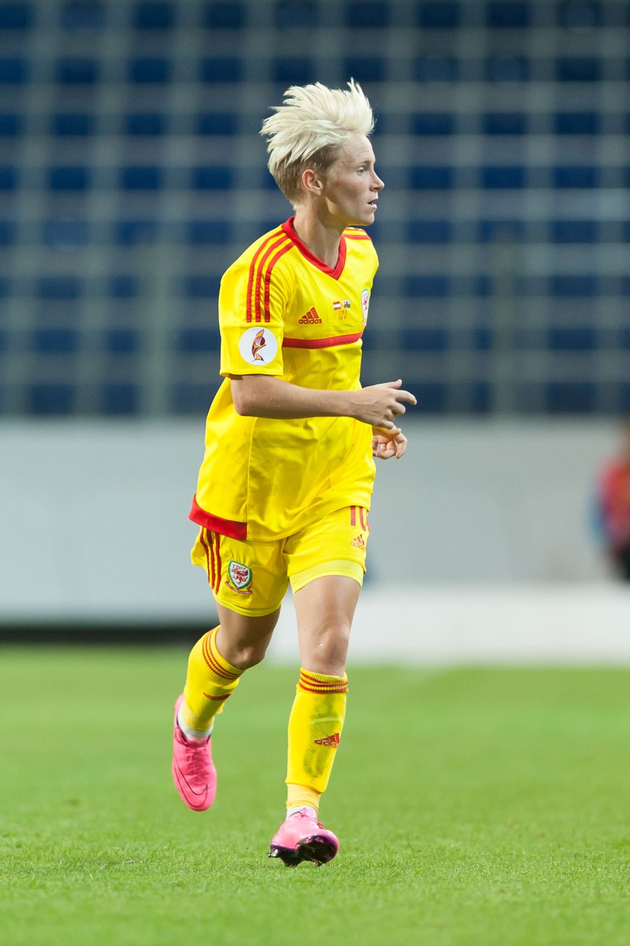 Women's Euro Qualification Austria vs. Wales, 2015-09-22, St. Pölten, Lower Austria